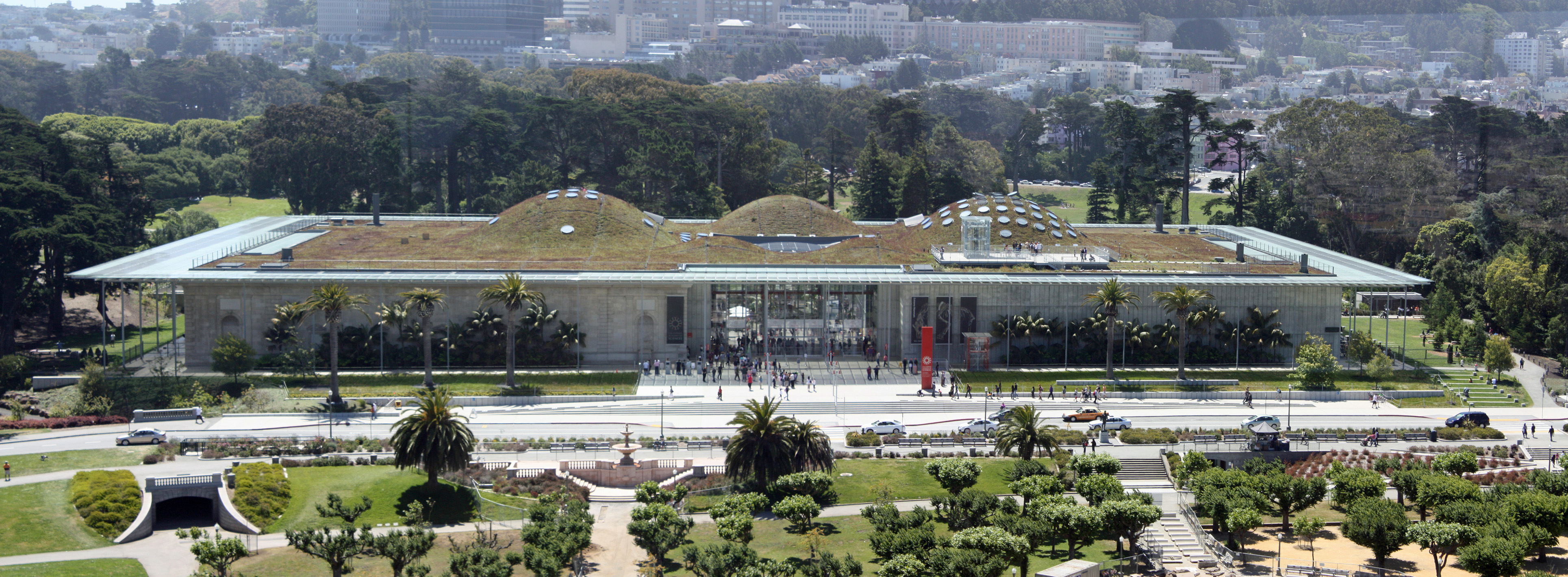 The California Academy of Sciences, Golden Gate Park, San Francisco, California, as viewed from the tower of the de Young Museum (with the University of California, San Francisco Parnassus campus at the base of Mount Sutro in the distance). The building has a green roof. The three largest "hills" on the roof overlie the planetarium, swamp exhibit and rainforest exhibit (left to right).